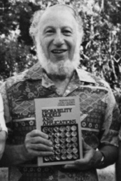 Cy Derman with Ingram Olkin and Leon Gleser in 1986